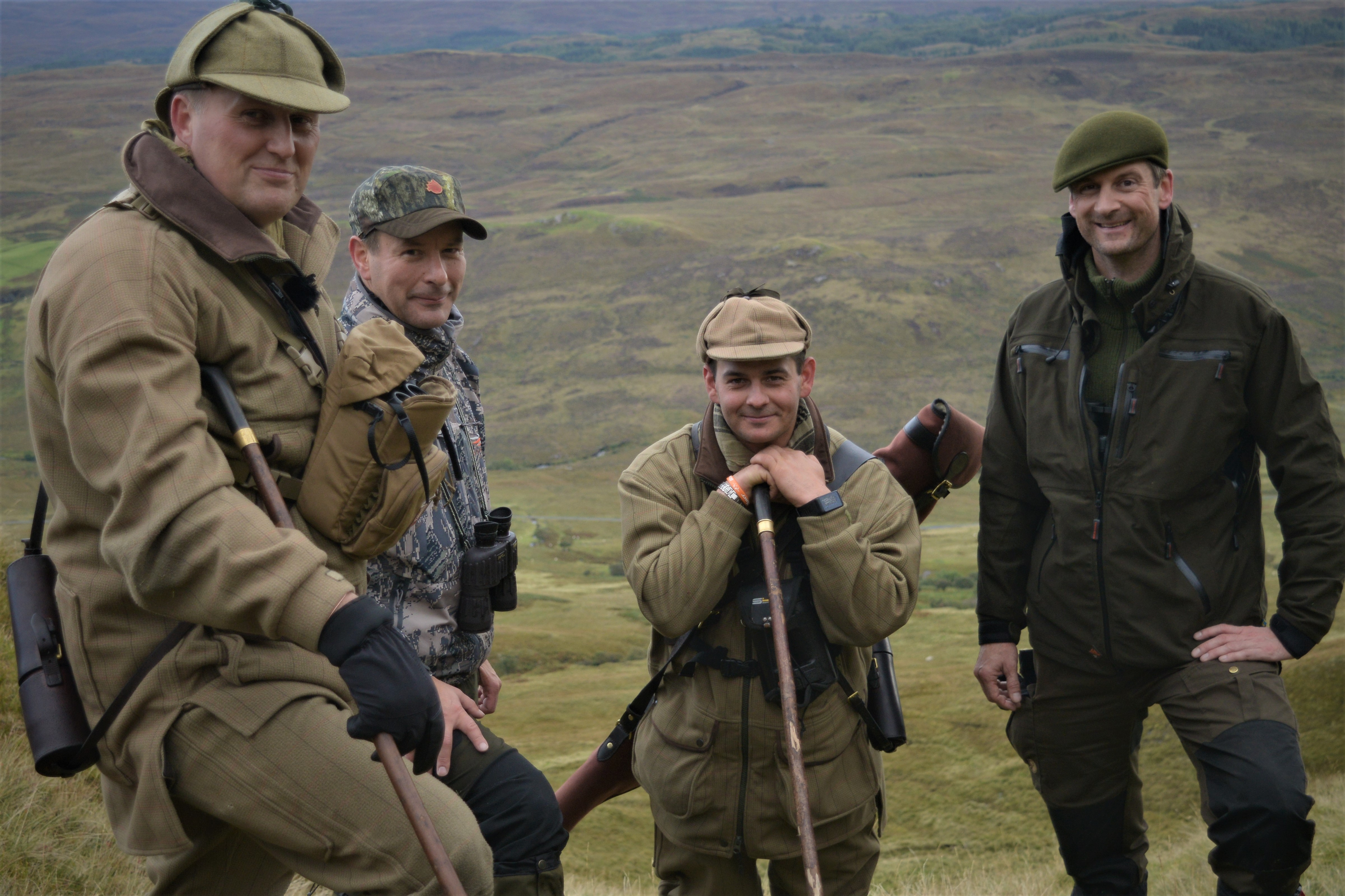 Niall Rowantree (leftmost), professional stalker and gamekeeper of West Highland Hunting, taking out a German guest hunter (on his right) deer stalking on Ardnamurchan Estate in Scotland